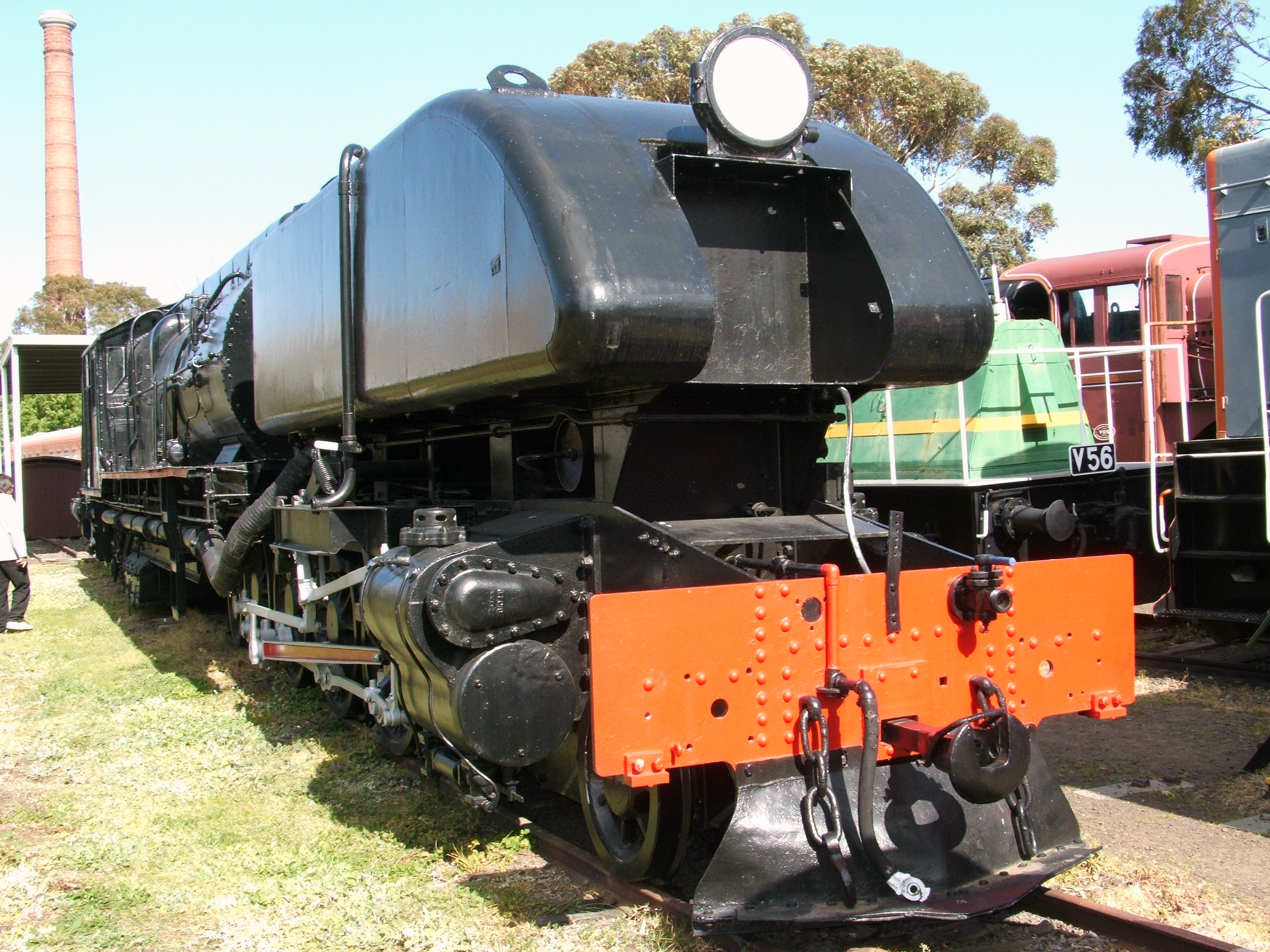 Australian Standard Garratt No. 33, as preserved at the Australian Railway Historical Society Museum at North Williamstown, Victoria.